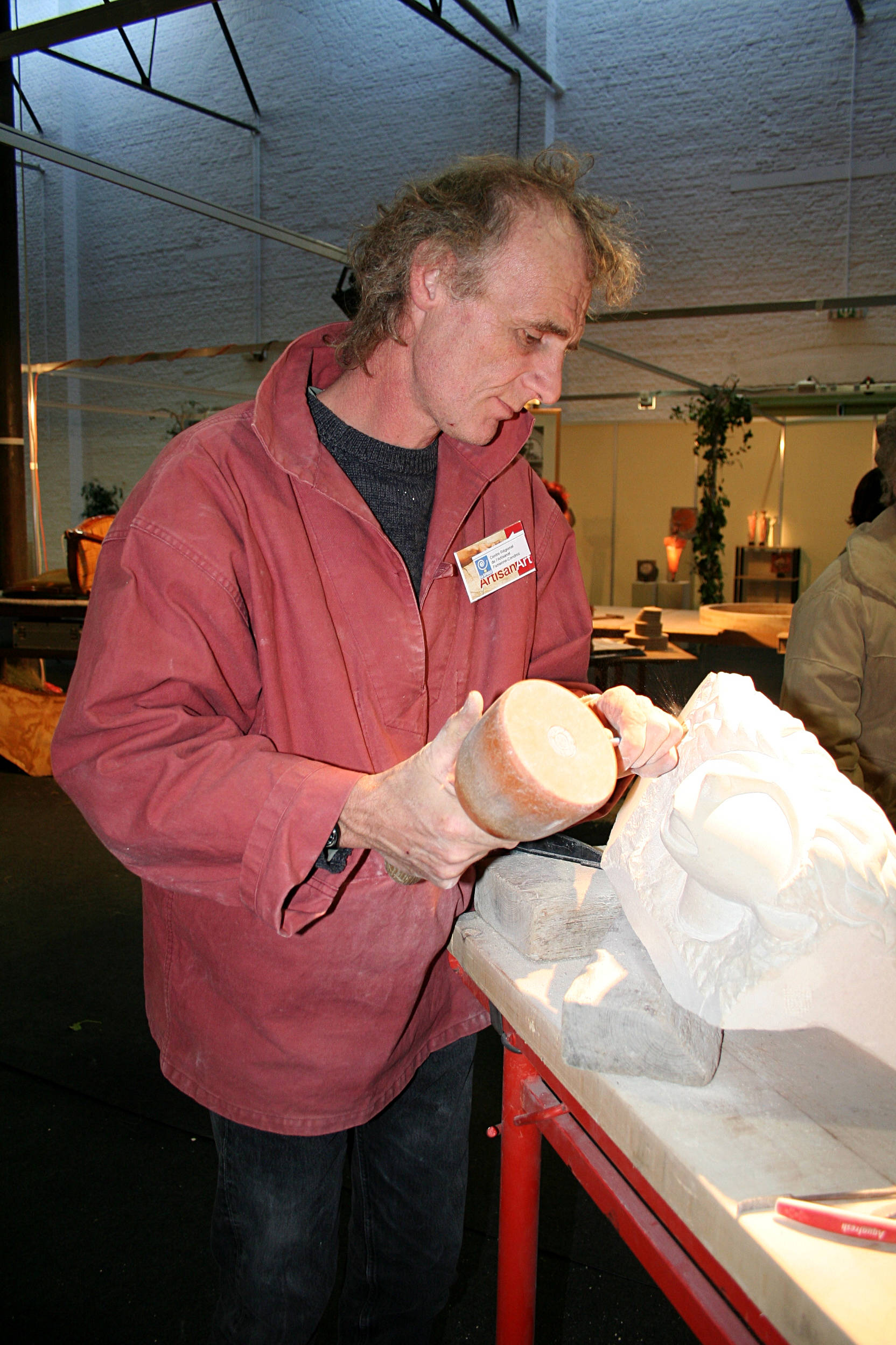 The stone sculptor Philippe Nicodème at work.